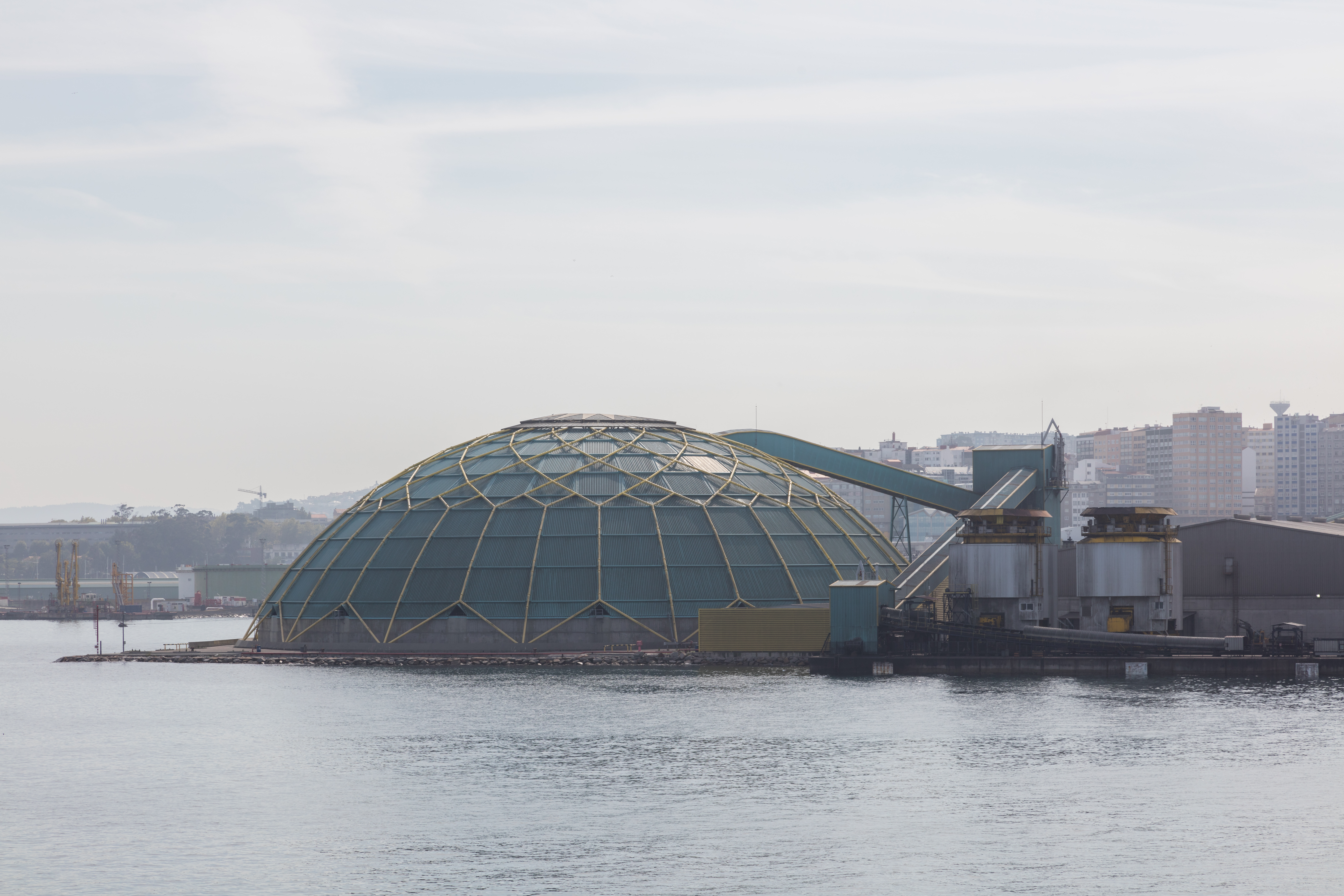 Carbon Dome, La Coruña, Spain